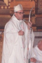 Pere Tena i Garriga